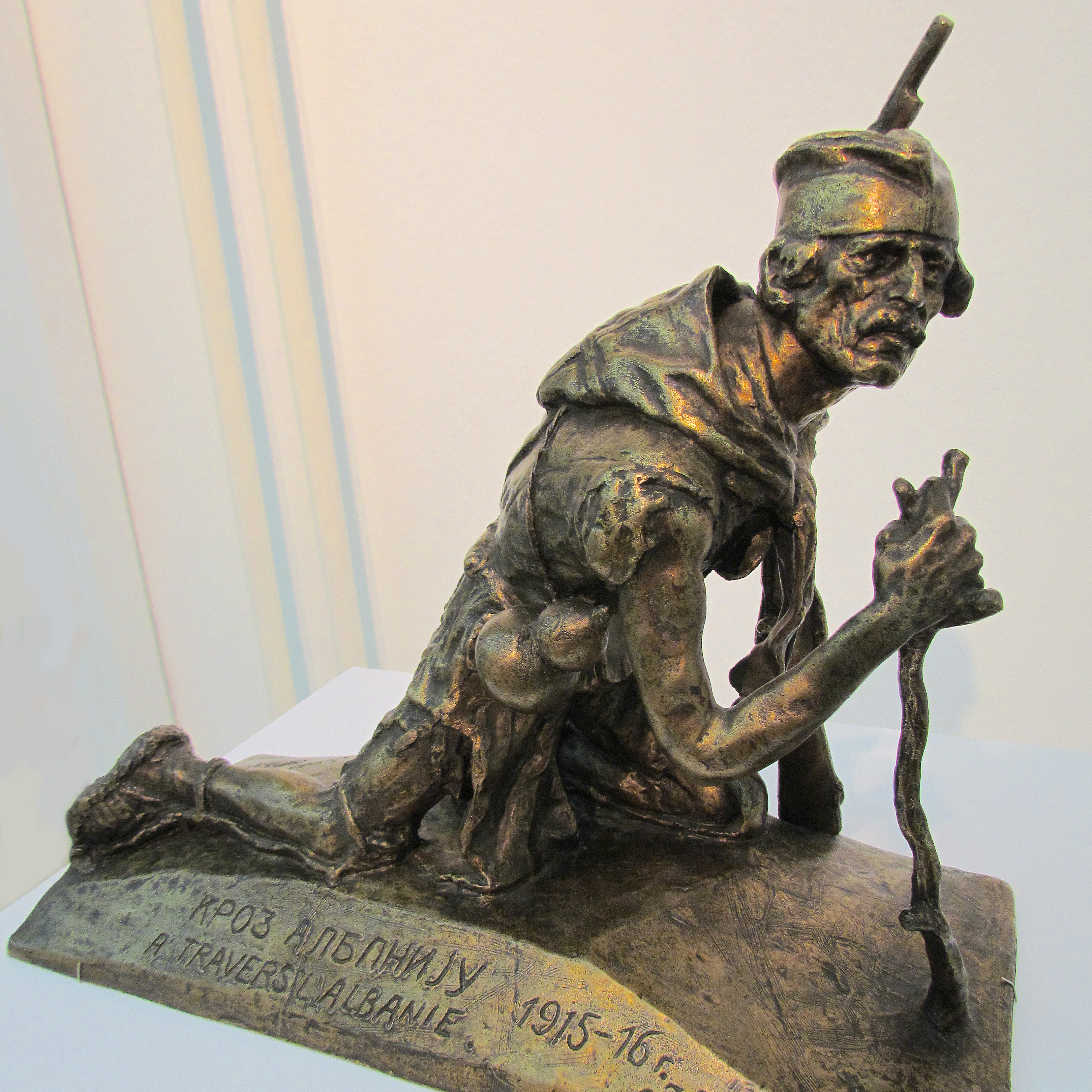 Jovan Pešić, Through Albania 1919